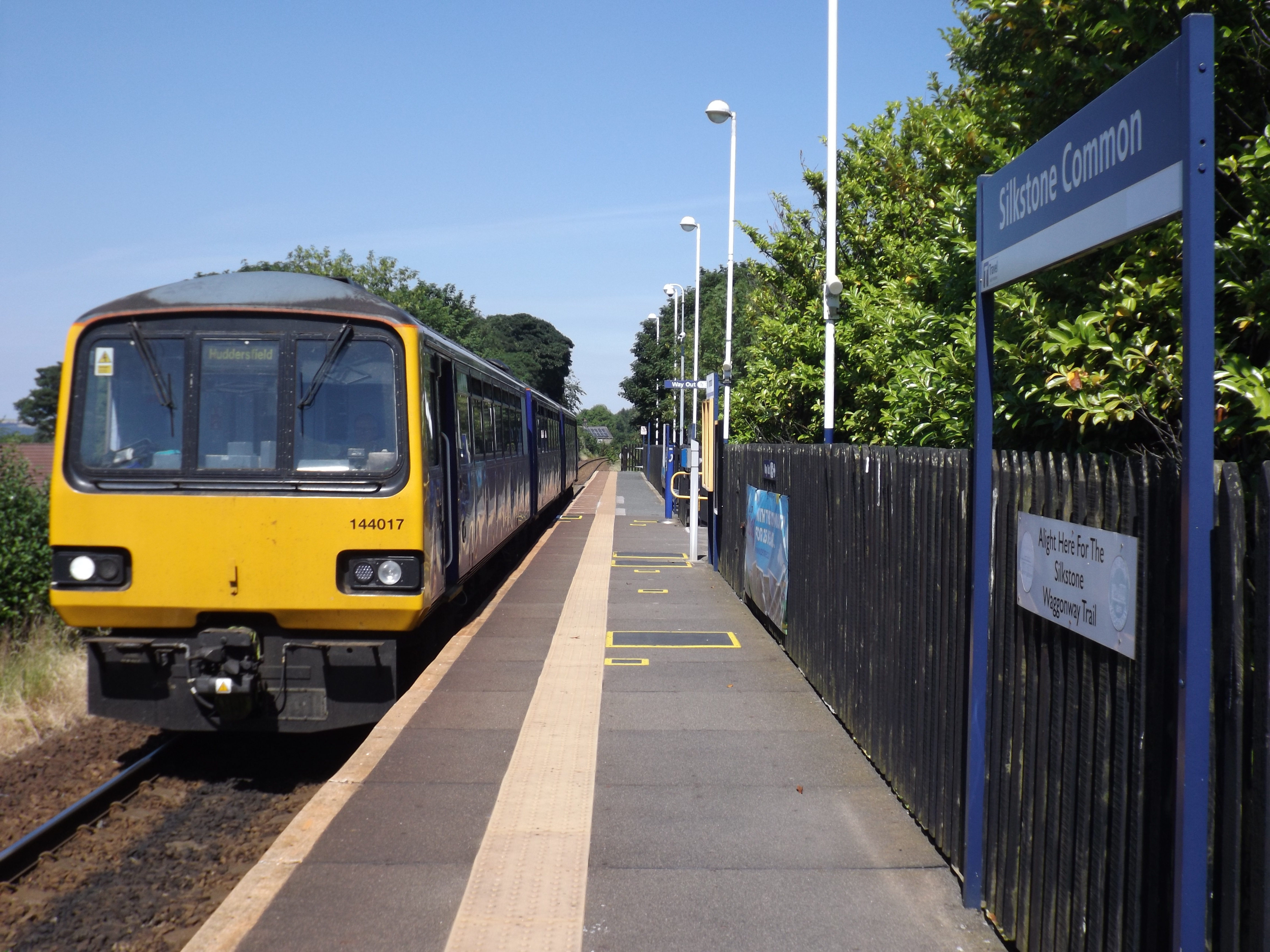 Silkstone Common railway station, South Yorkshire, England.